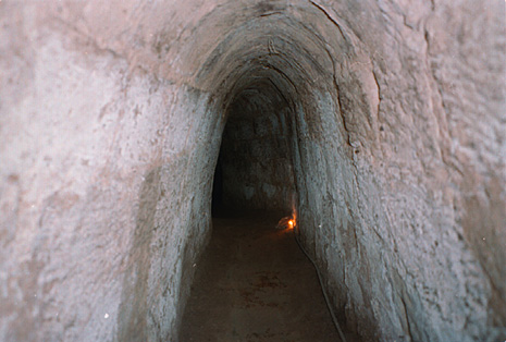 Inside the Cu Chi Tunnels in Viet Nam. Infamous and effective during the war, the tunnels are now a popular tourist attraction. Photo taken by Wikimedia Commons user Kevyn Jacobs, released into the public domain.